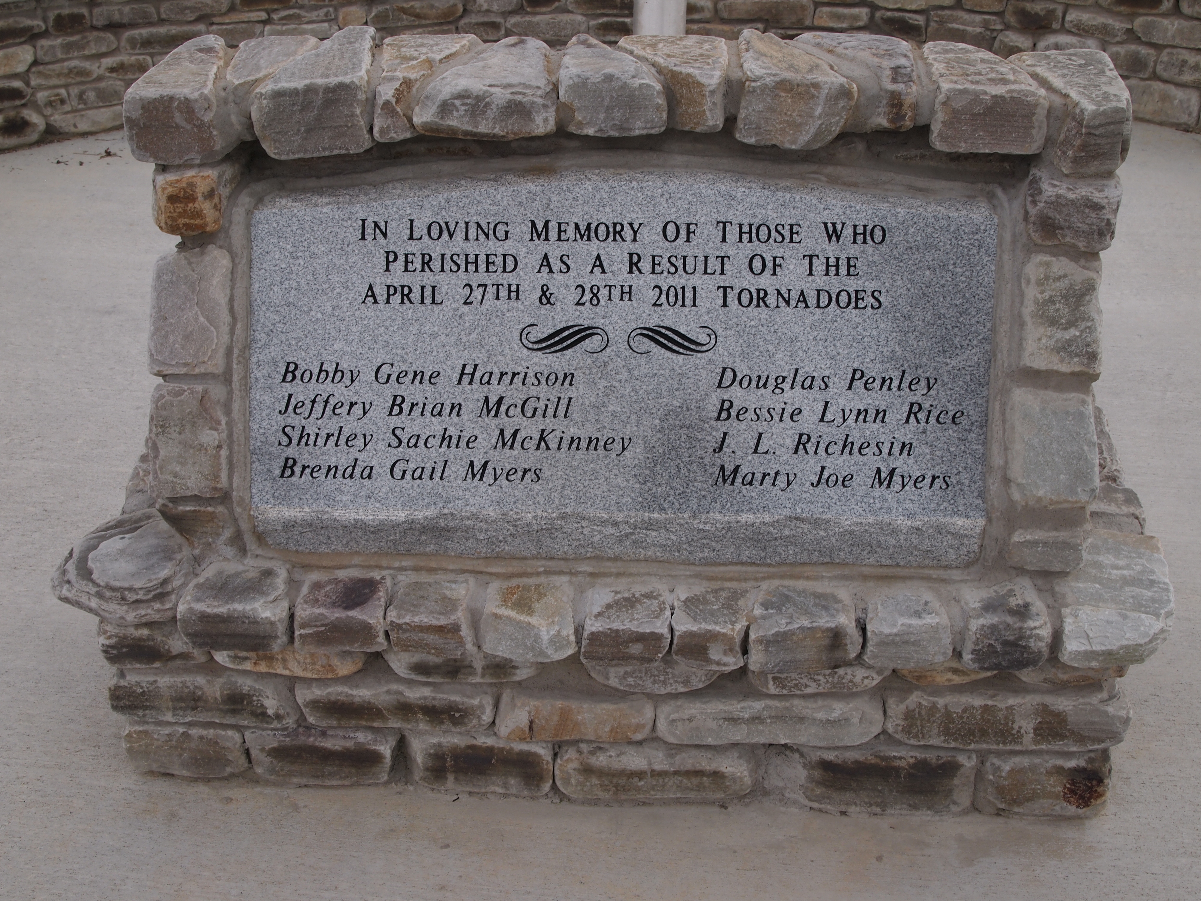 This is the Tornado Memorial.